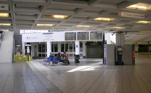 Bradford Interchange - Lower Concourse